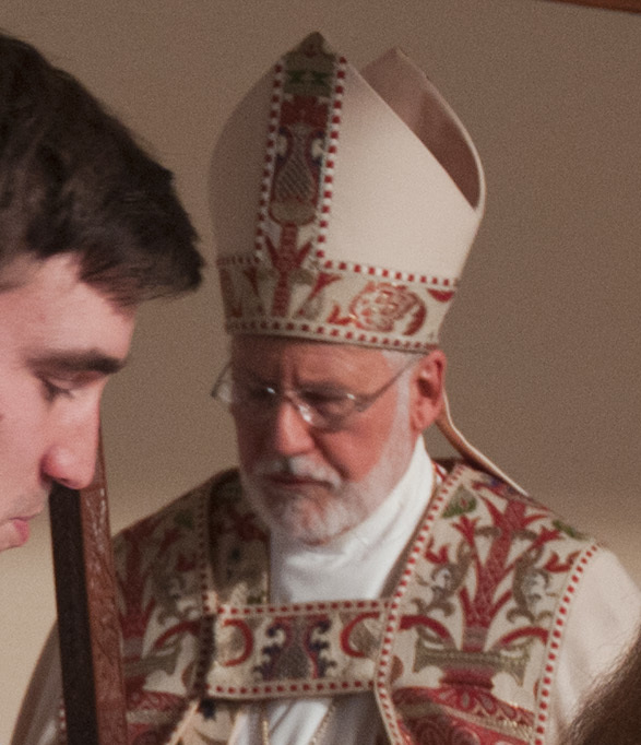 Bishop Brewer (far left) enters procession for the consecration, while the Rt. Rev. John W. Howe watches from rear.